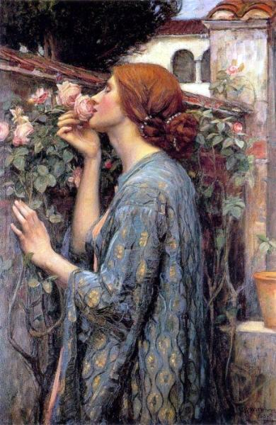 The Soul of the Rose, aka My Sweet Rose